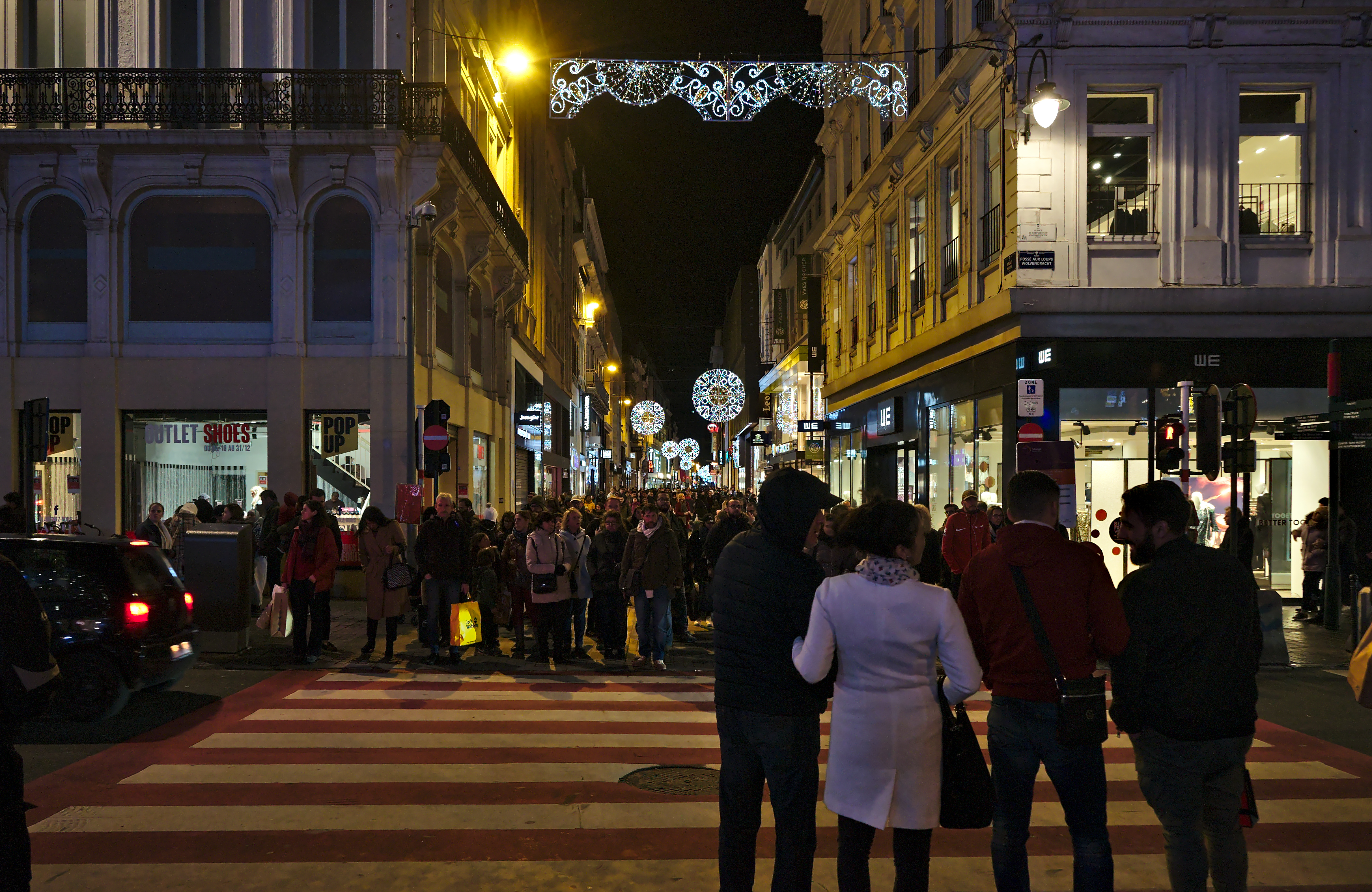 Rue Neuve at night, from De Brouckere side, Brussels, Belgium (DSCF1349)